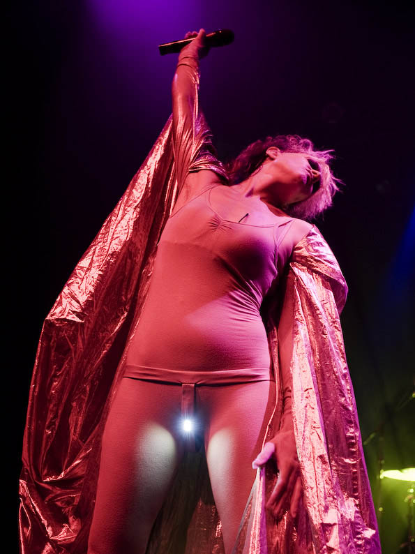 Peaches performing live onstage in Los Angeles, USA, in 2009.